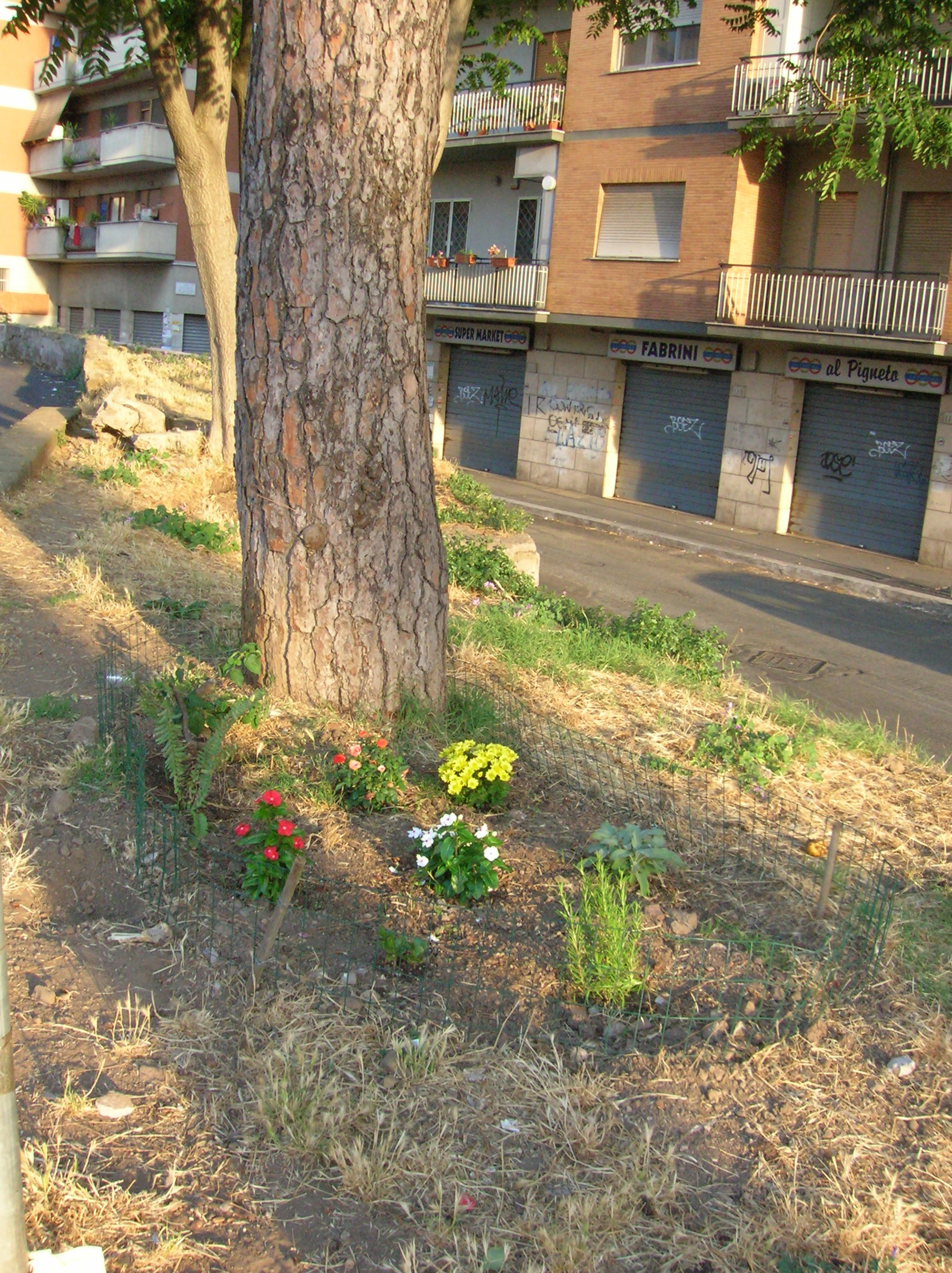 Guerrilla gardening in Pigneto (Rome) (Italy)